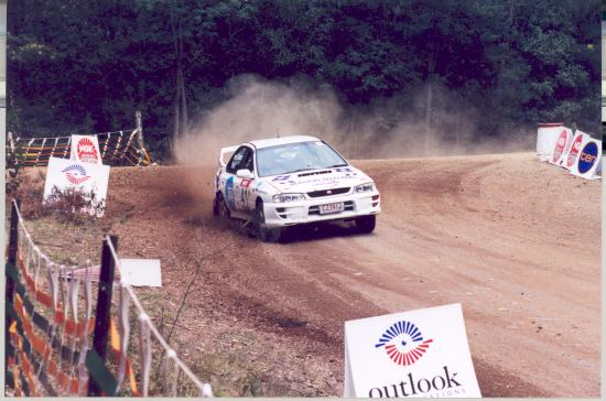 Image of a subaru WRX at the Rally of Victoria, October 2003.